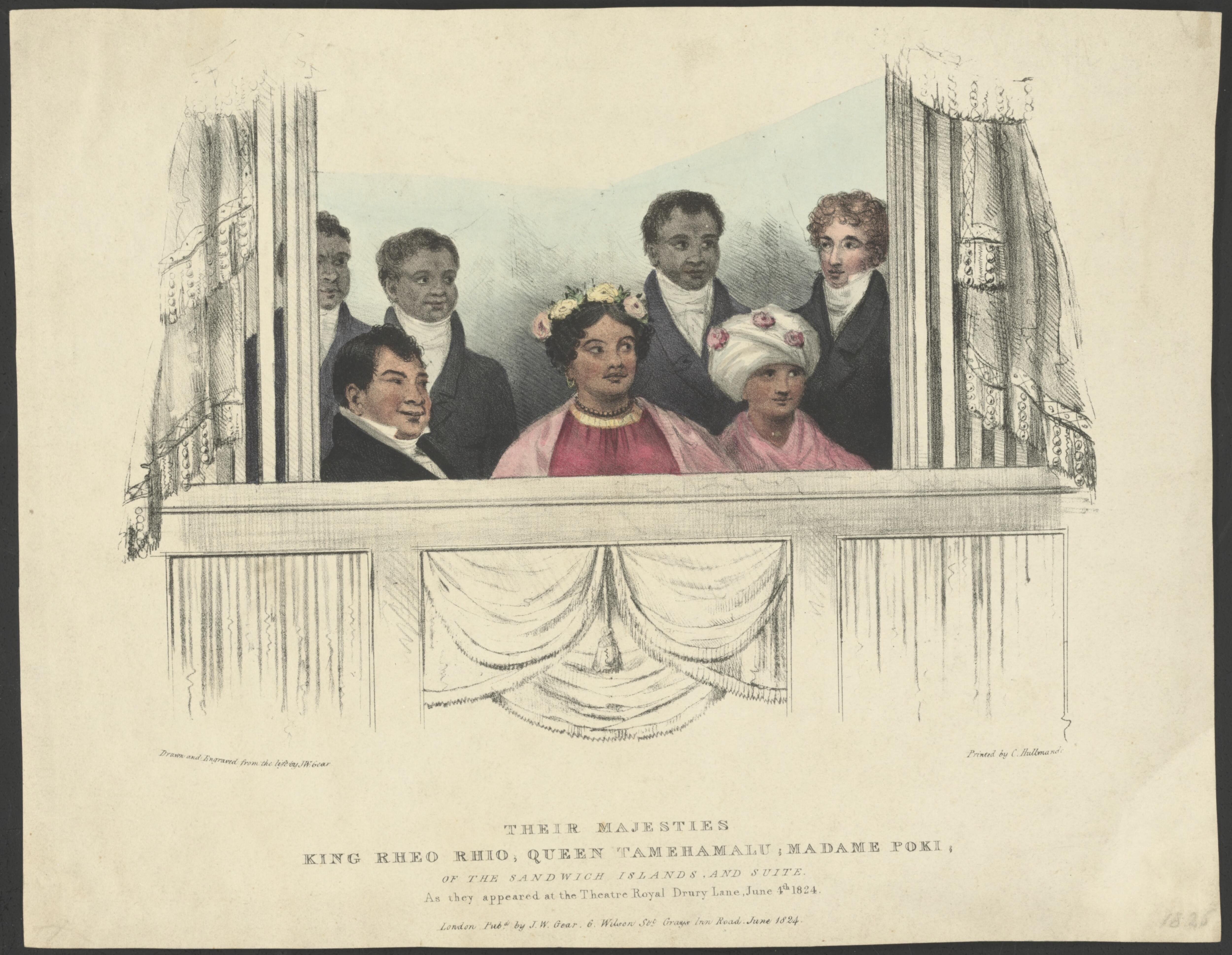 "Their Majesties King Rheo Rhio, Queen Tamehamalu, Madame Poke" by J. W. Gear. Hand colored lithograph dated depicting King Kamehameha II (Liholiho) and Queen Kamamalu and their party attending a performance at the Drury Lane Theatre on June 4th, 1824